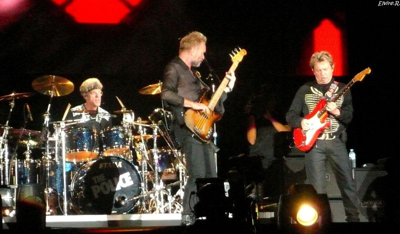 The POLICE Live @Le Vélodrome 03/06/2008